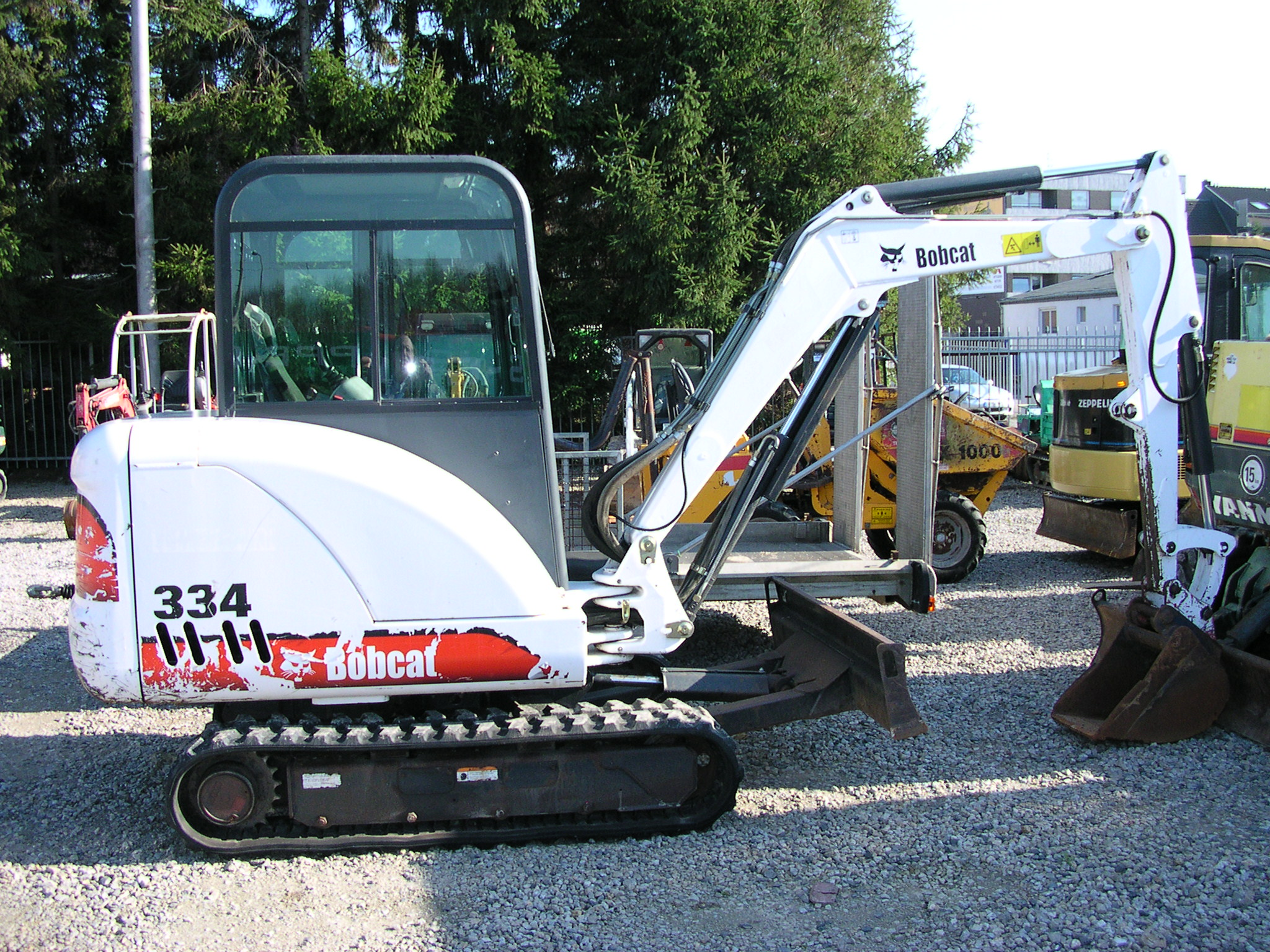 Bobcat 334 Excavator